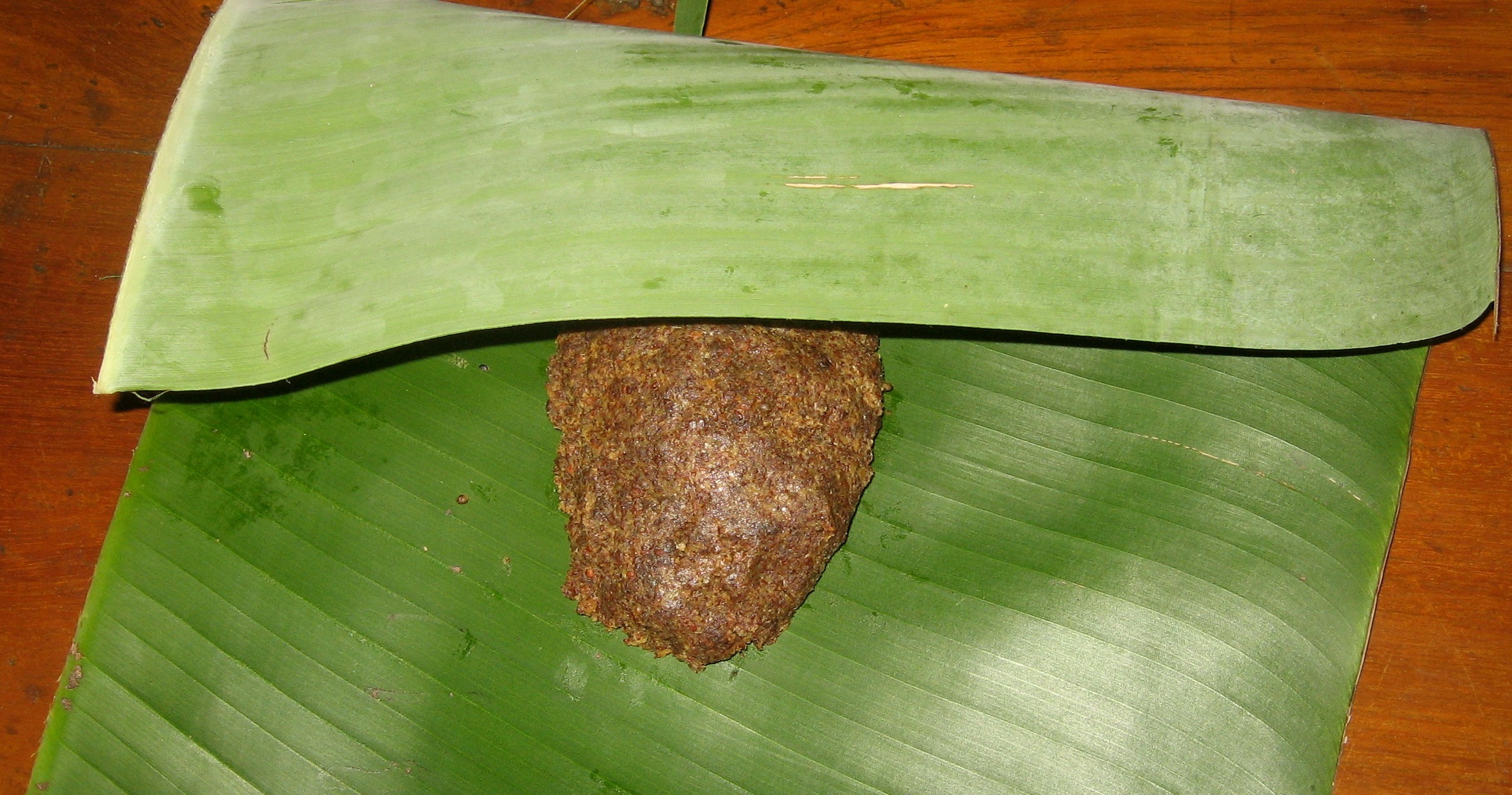 assamese food